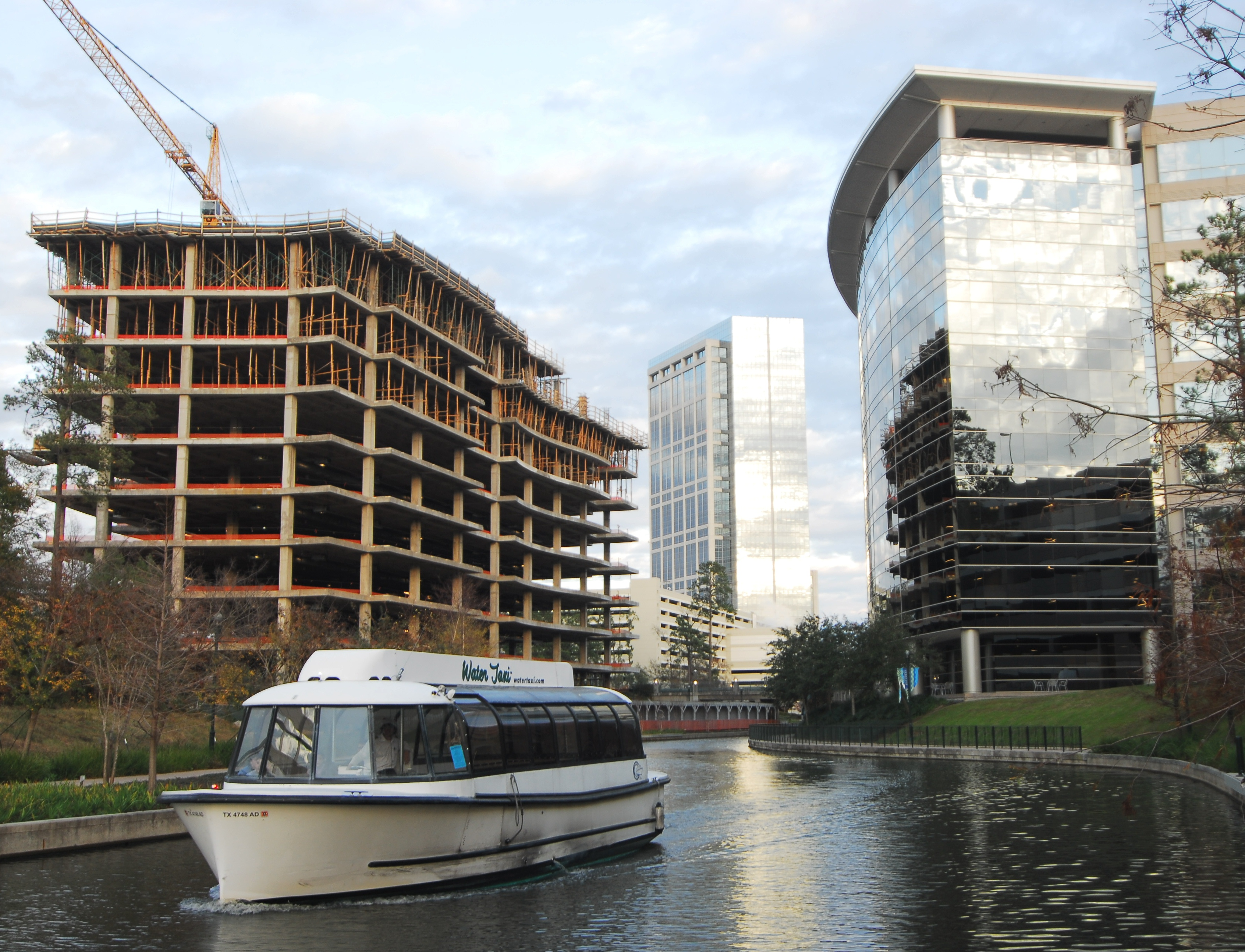 The Woodlands Waterway in December 2008